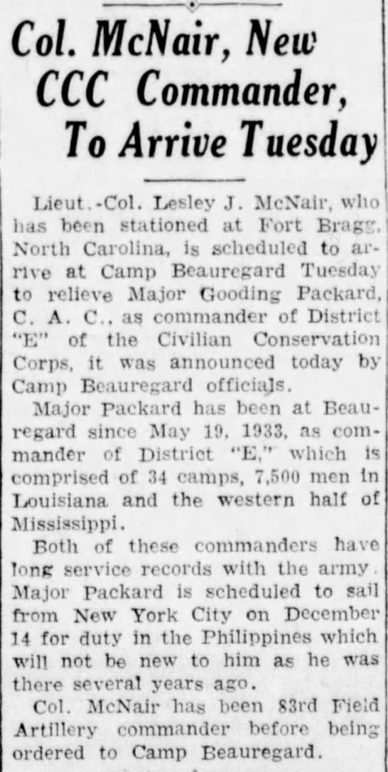 Lesley J. McNair announced as Louisiana CCC Commander, 1934.